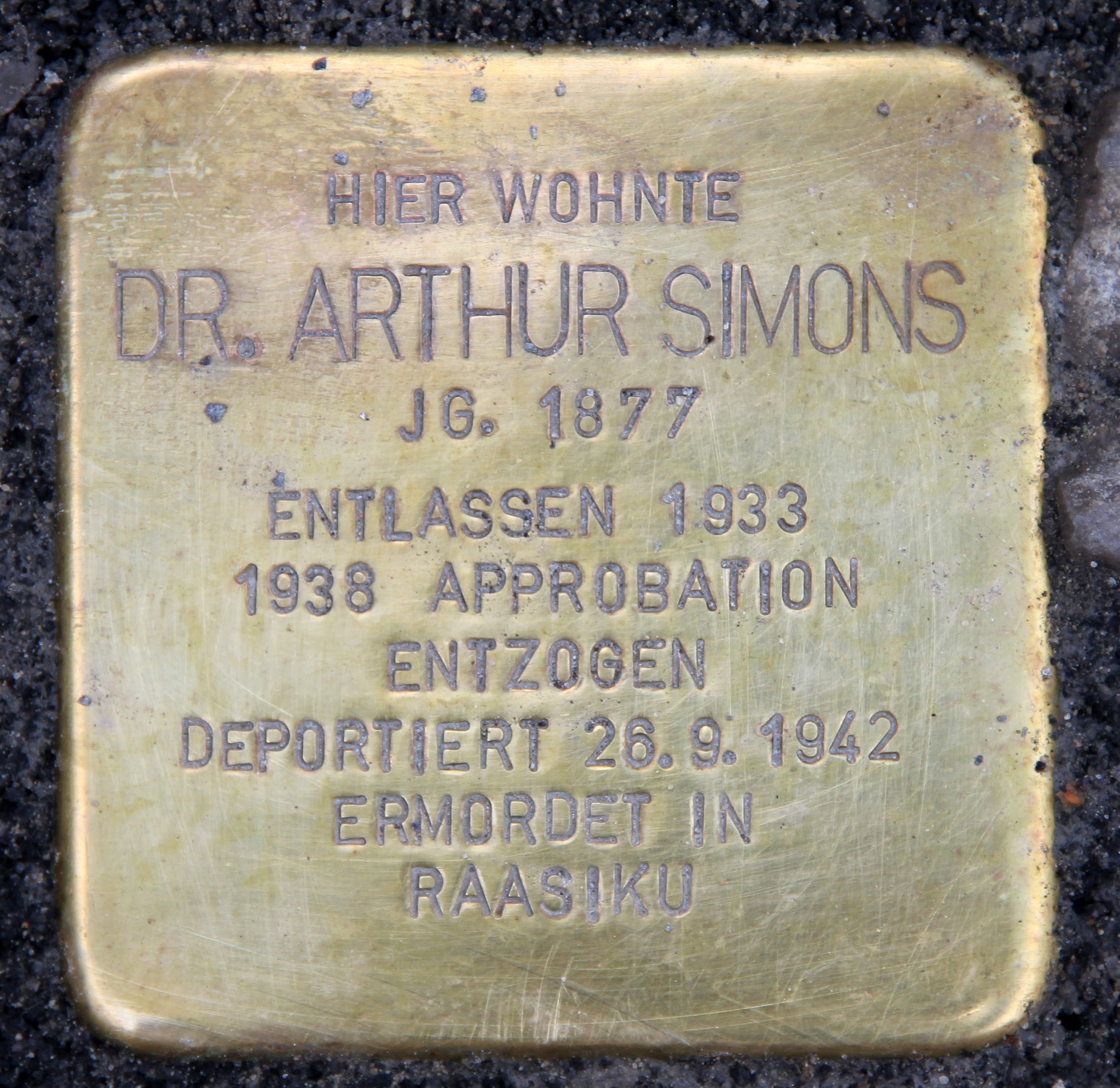 "Stolperstein" (stumbling block), Arthur Simons, Kurfürstenstraße 50, Berlin-Tiergarten, Germany